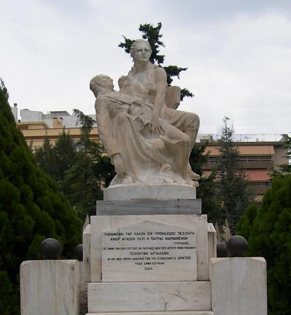 The Heroon at Ipsila Alonia garden, Aigio. Work of G. Dimitriadis (1880-1941).